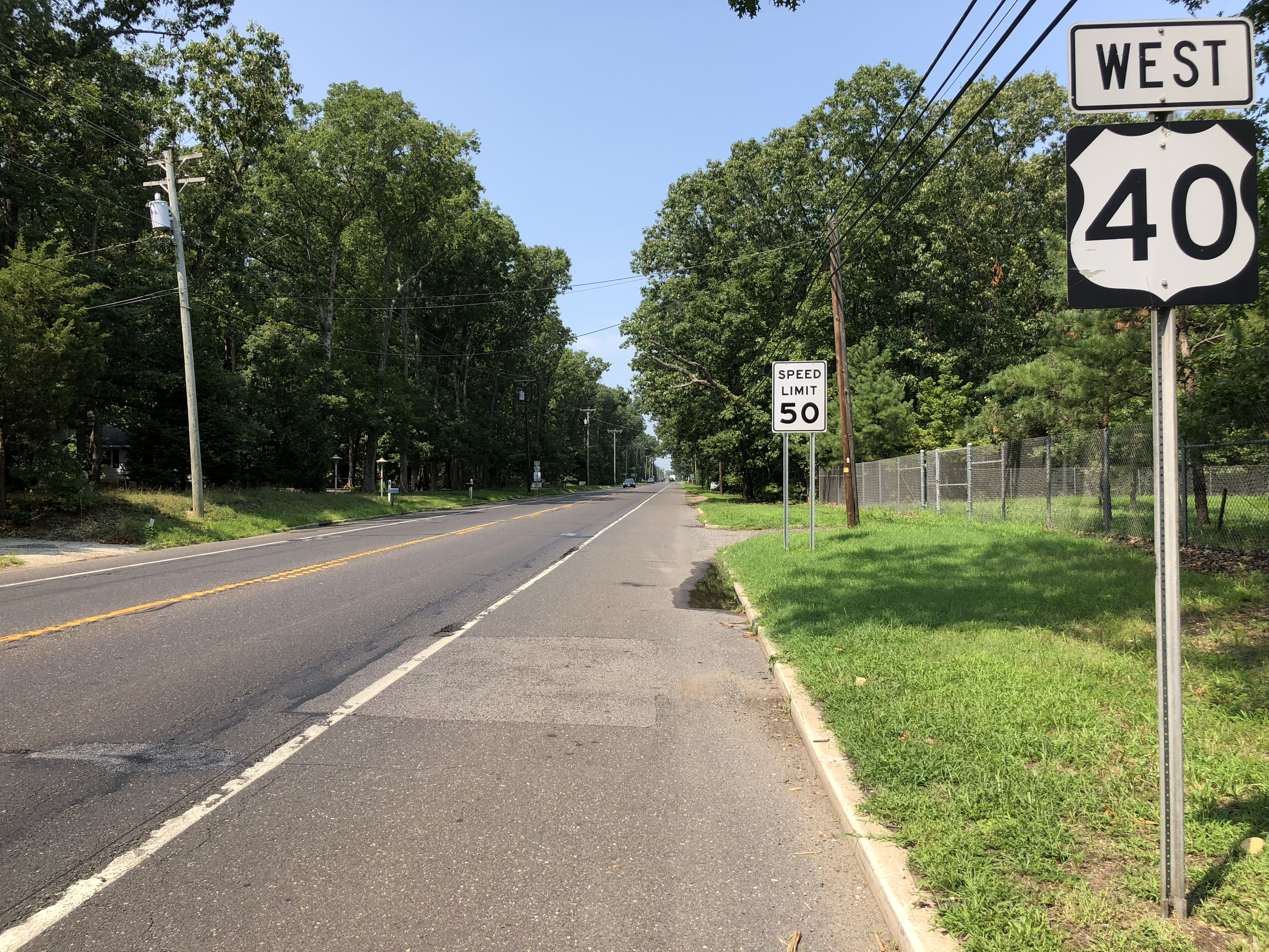 View west along U.S. Route 40 (Harding Highway) just west of Salem County Route 553 (Buck Road) along the border of Pittsgrove Township and Upper Pittsgrove Township in Salem County, New Jersey